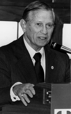 US Secretary of Transportation and Massachusetts Governor John A. Volpe.